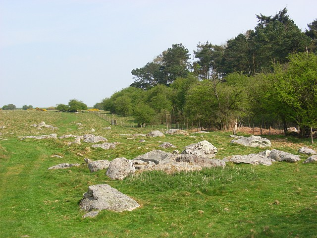 Sarsen stones, beside Delling Copse The remains of the sandstone cap the once covered the area, particularly prolific here on the Marlborough Downs.